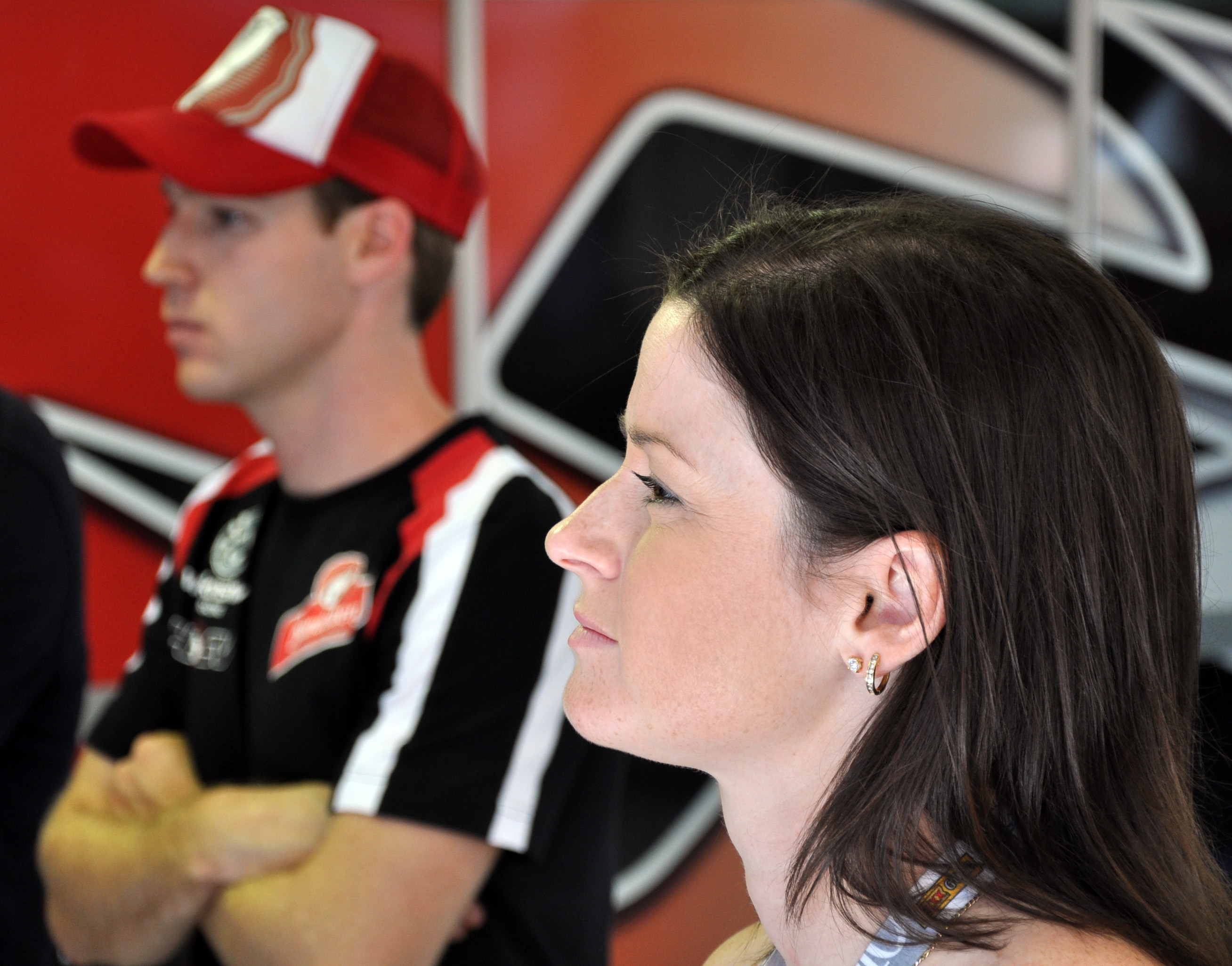 Images from the Townsville round of V8 Supercars 2010. David Reynolds and Leanne Tander. Holden Racing Team 2010.